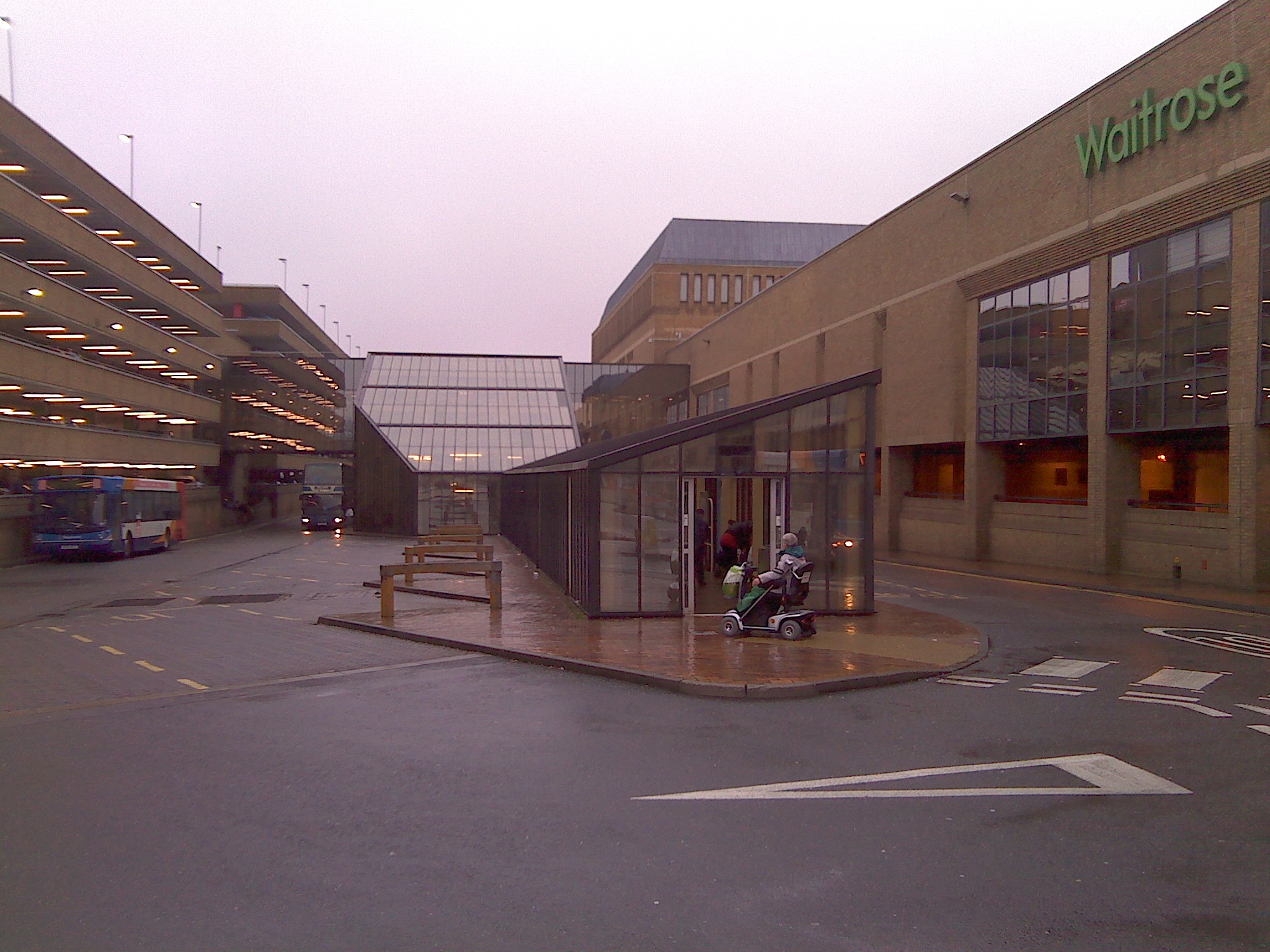 Queensgate Bus Station which is also the main Bus station for Peterborough at Queensgate shopping centre in Peterborough!